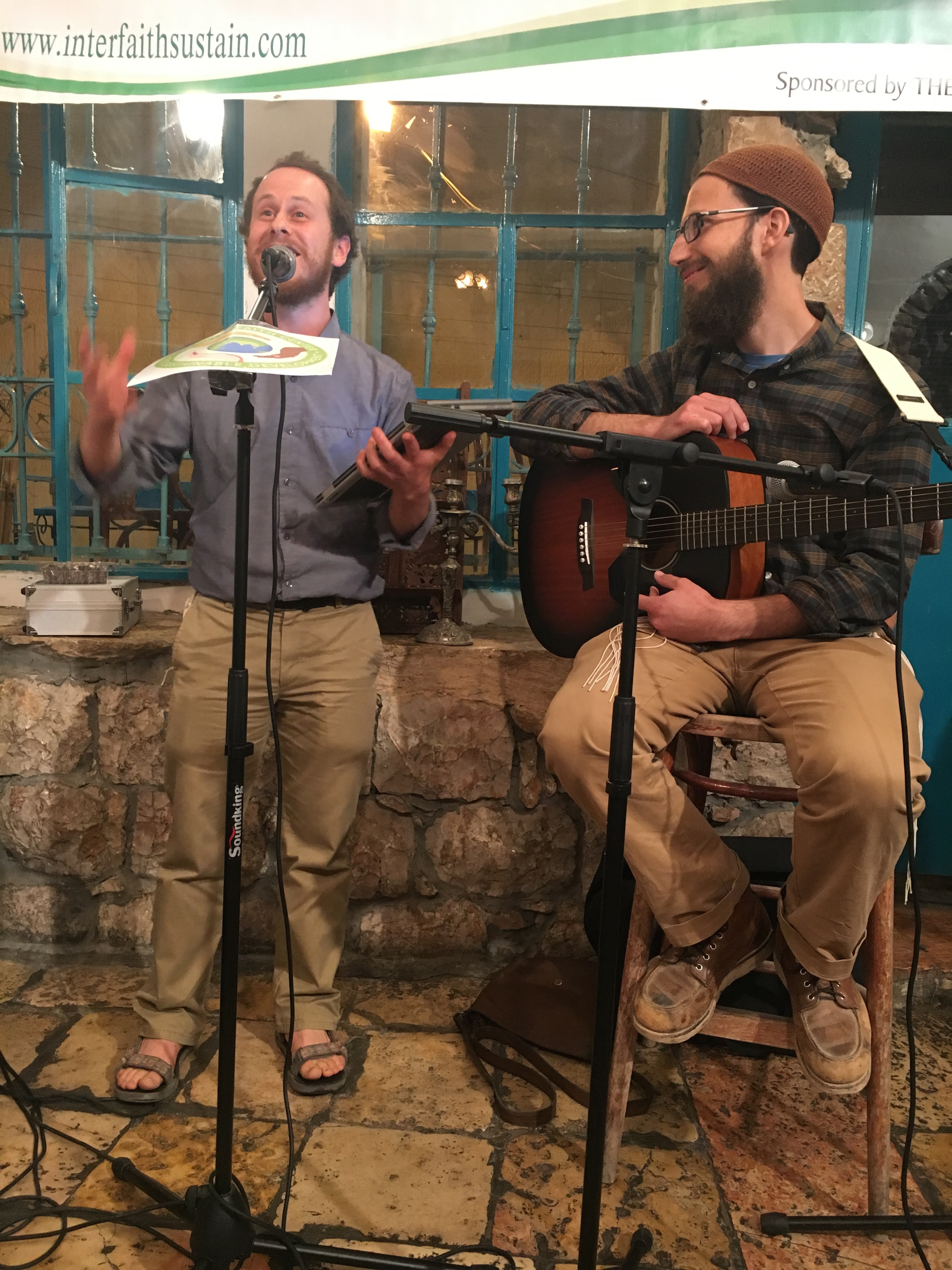 Two Jewish Performers on the 2016 Eco Interfaith Poetry Event in Jerusalem